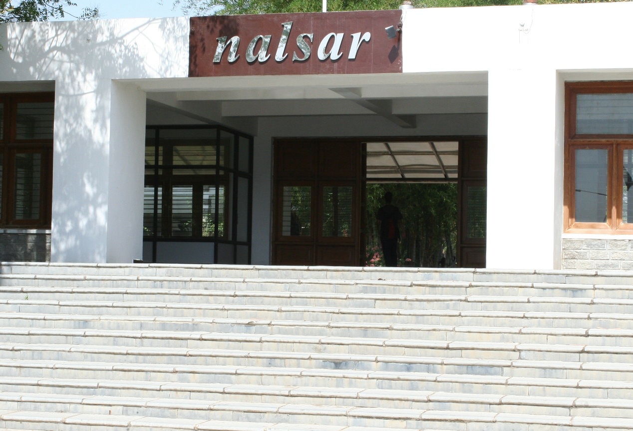 Boys Hostel at Nalsar University of Law